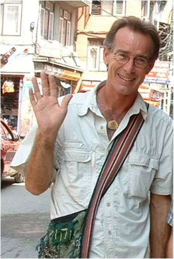 trekking and living in Nepal 2003